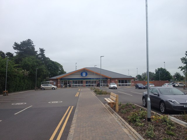 Collingham Co-op